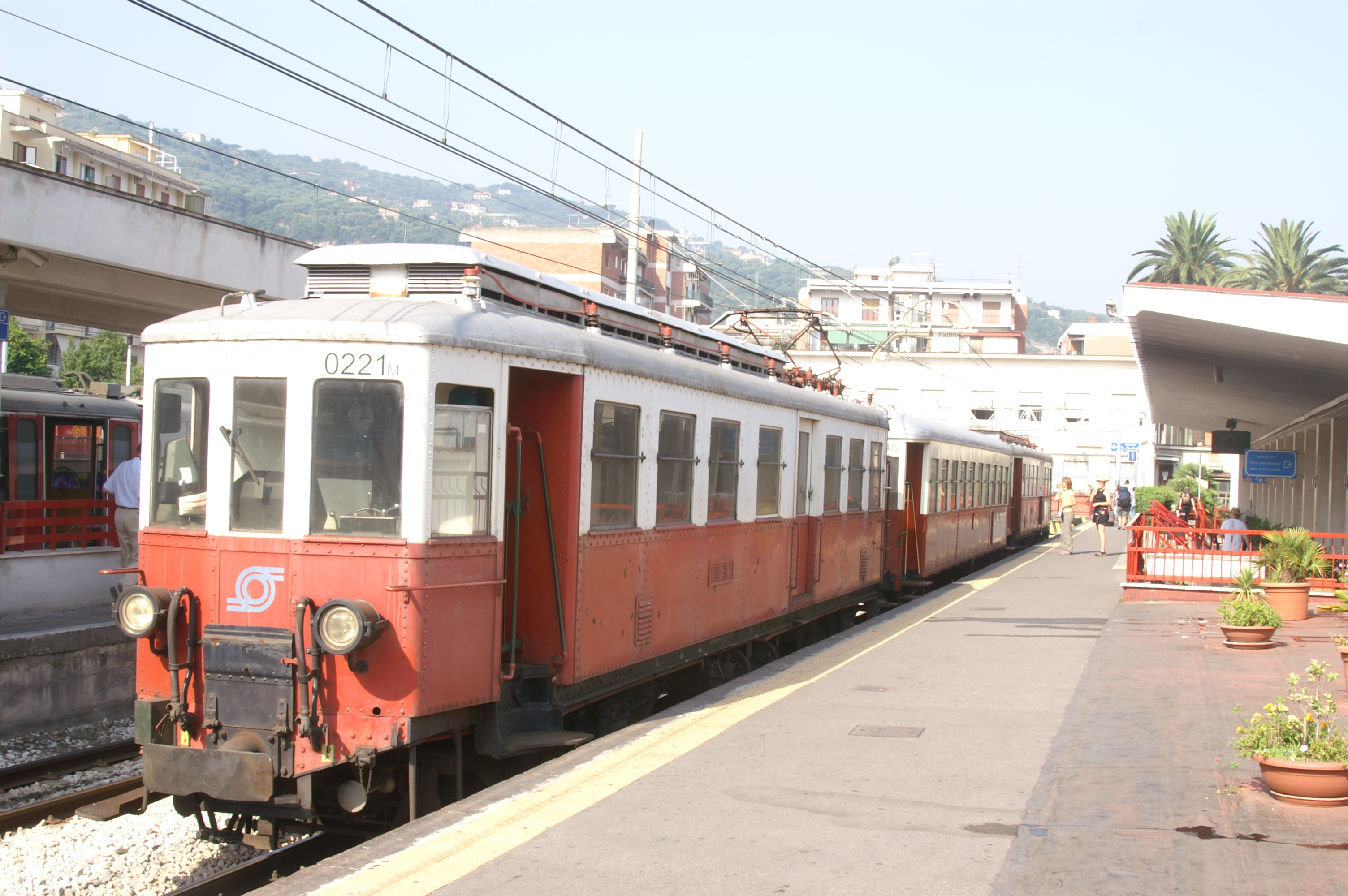 Circumvesuviana "old stock" Nostalgic ride from Sorrento to Pompeii